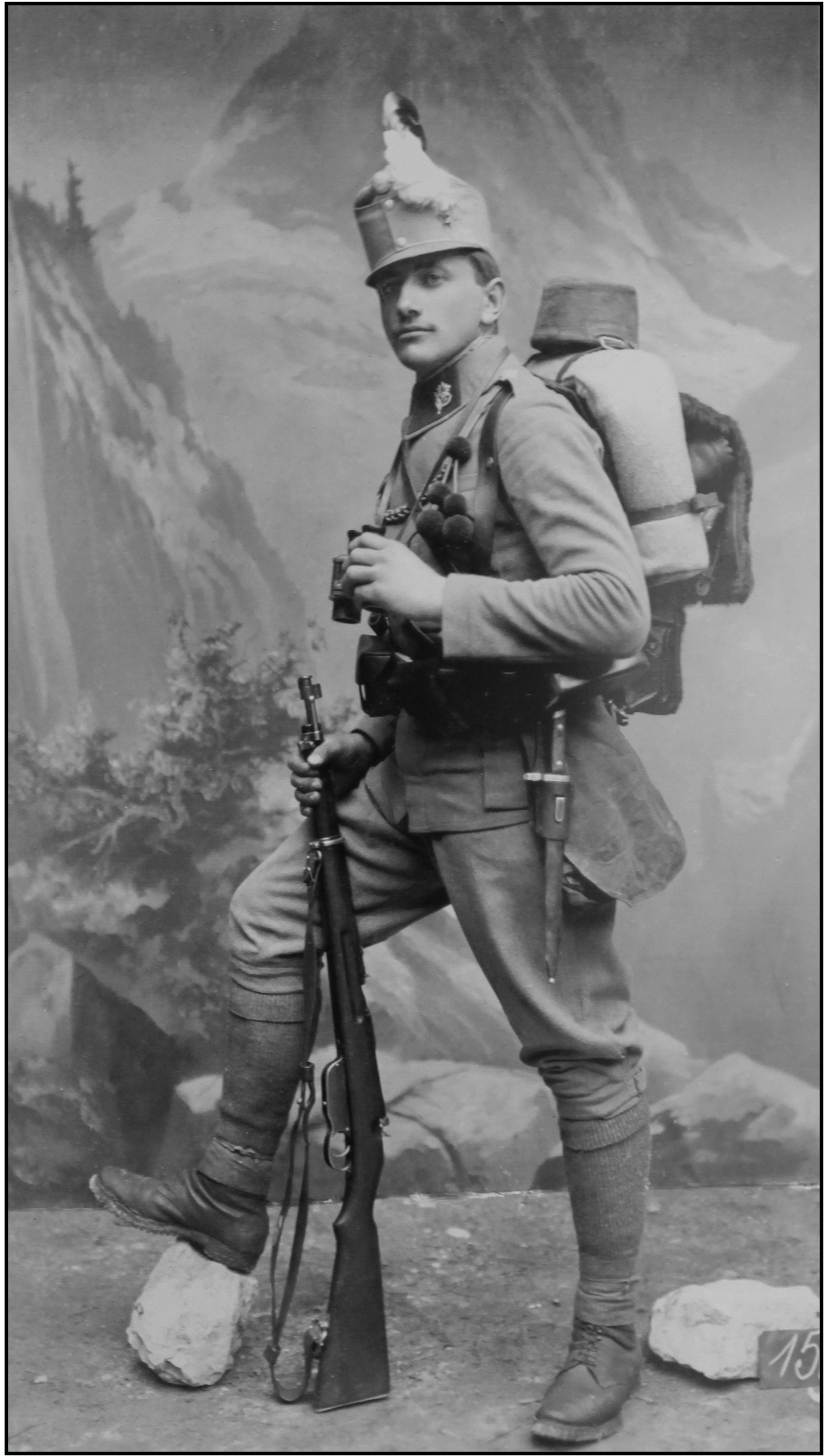 3583 Uniforms of mountain units.